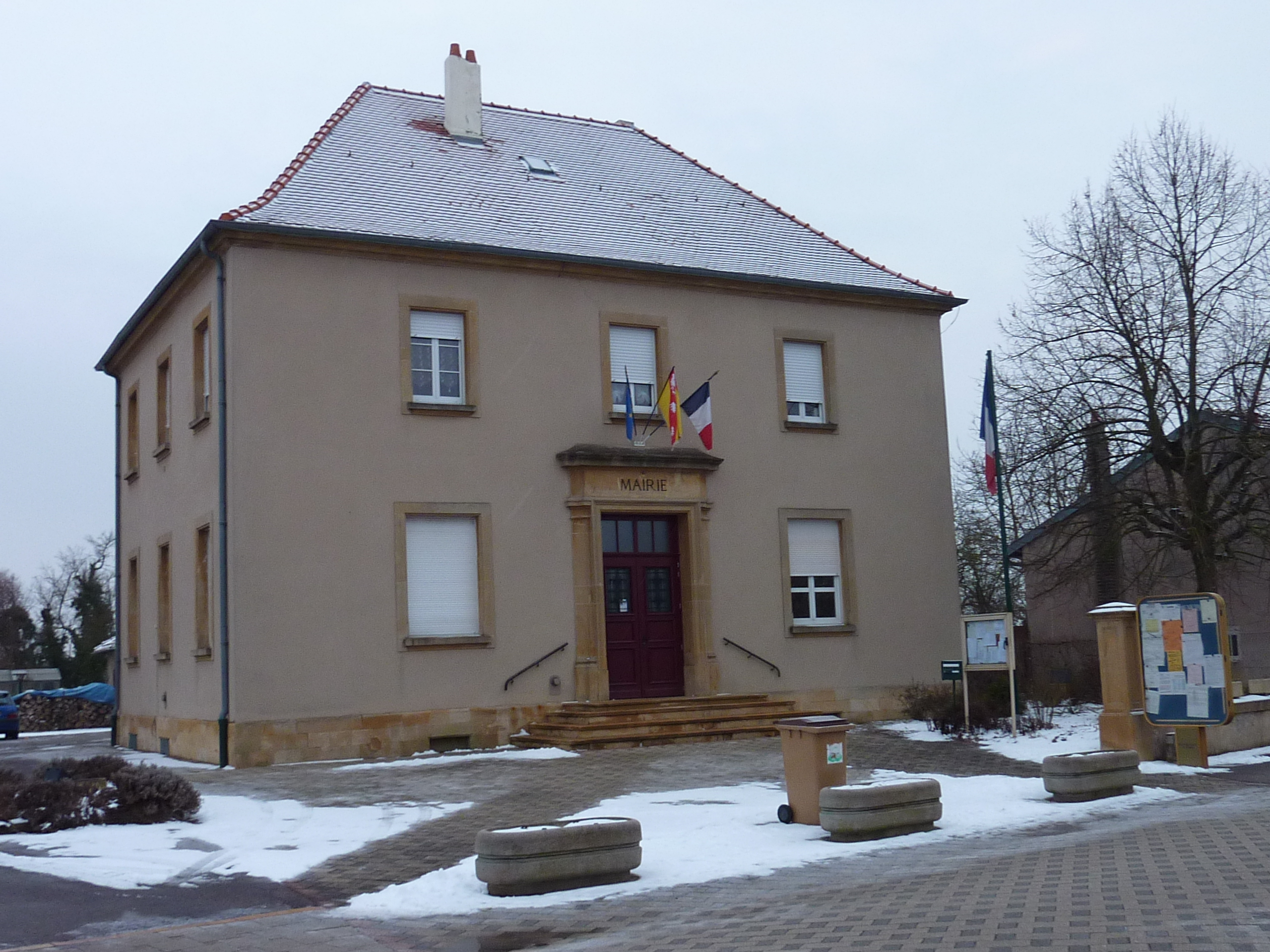 The town hall in Fleury (Moselle), France.